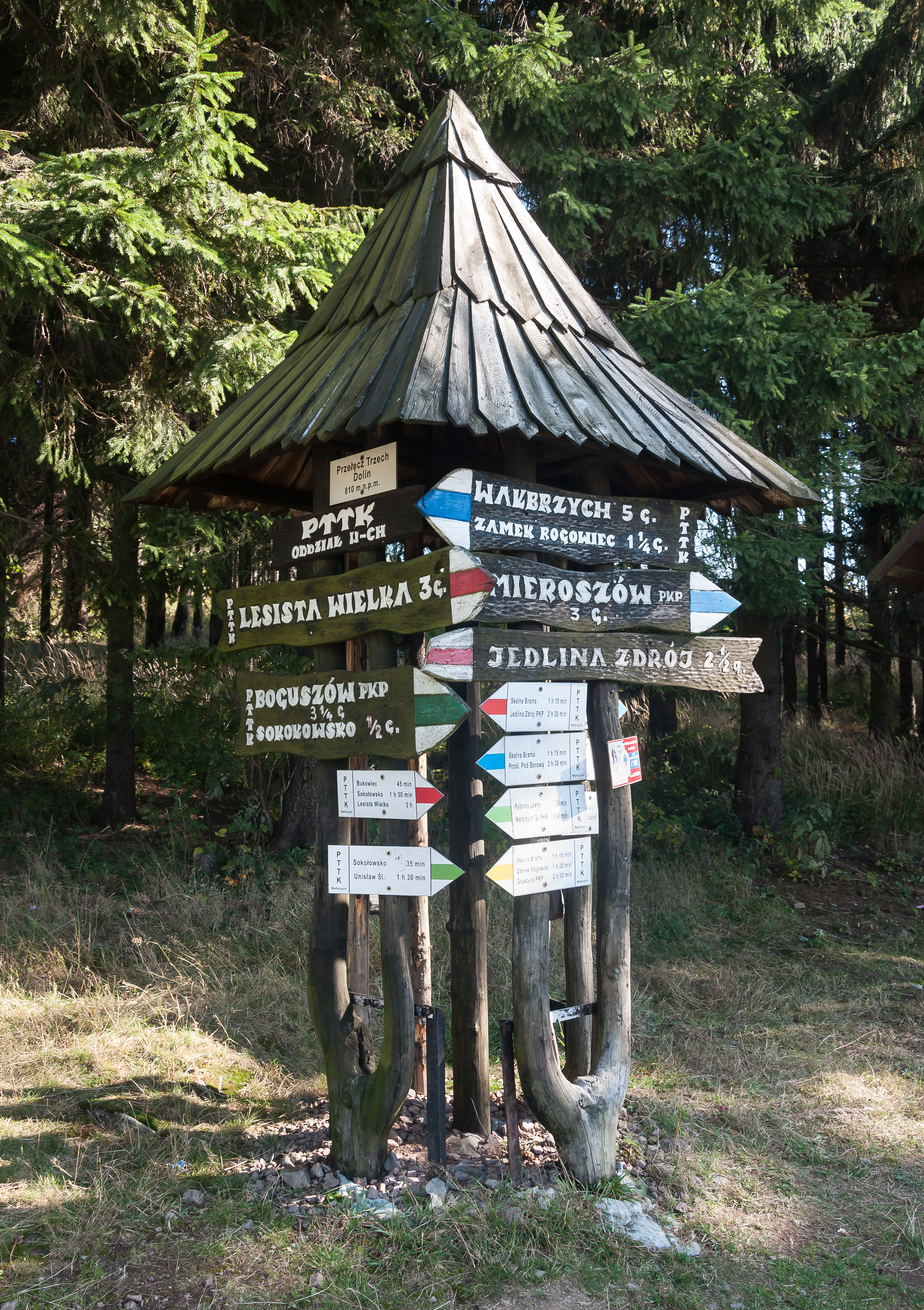 Footpath signs next to Andrzejówka hostel